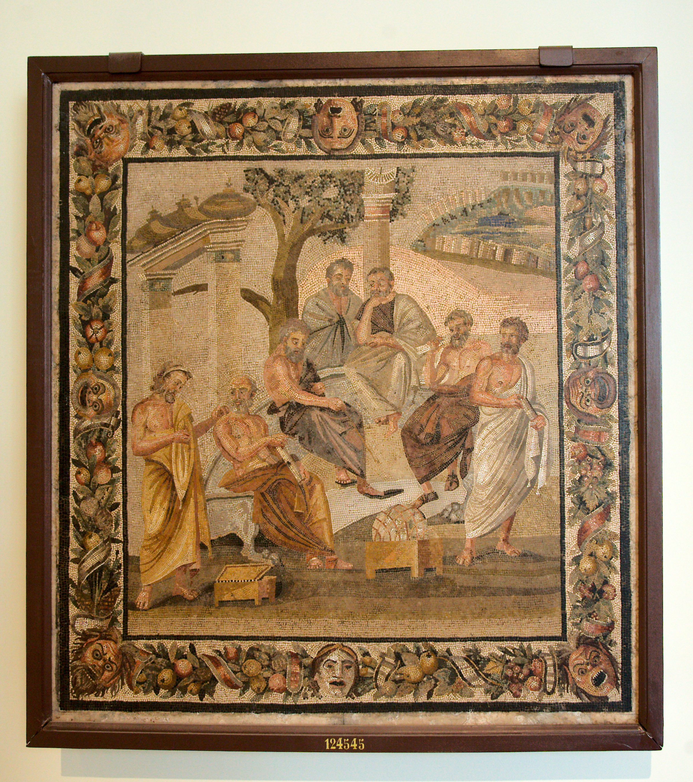 Mosaics from Pompeii in the Museo Archeologico Nazionale in Naples